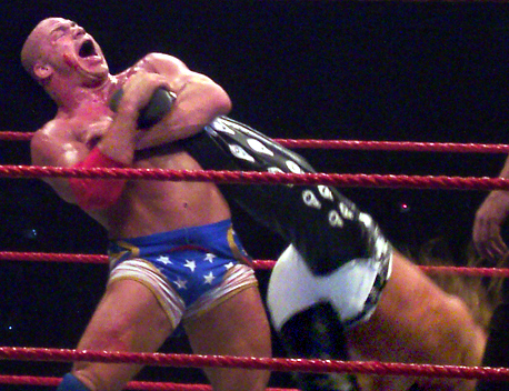 Shawn Michaels and Kurt Angle @ Adelaide, South Australia 'RAW' house show on the 28th of October '05